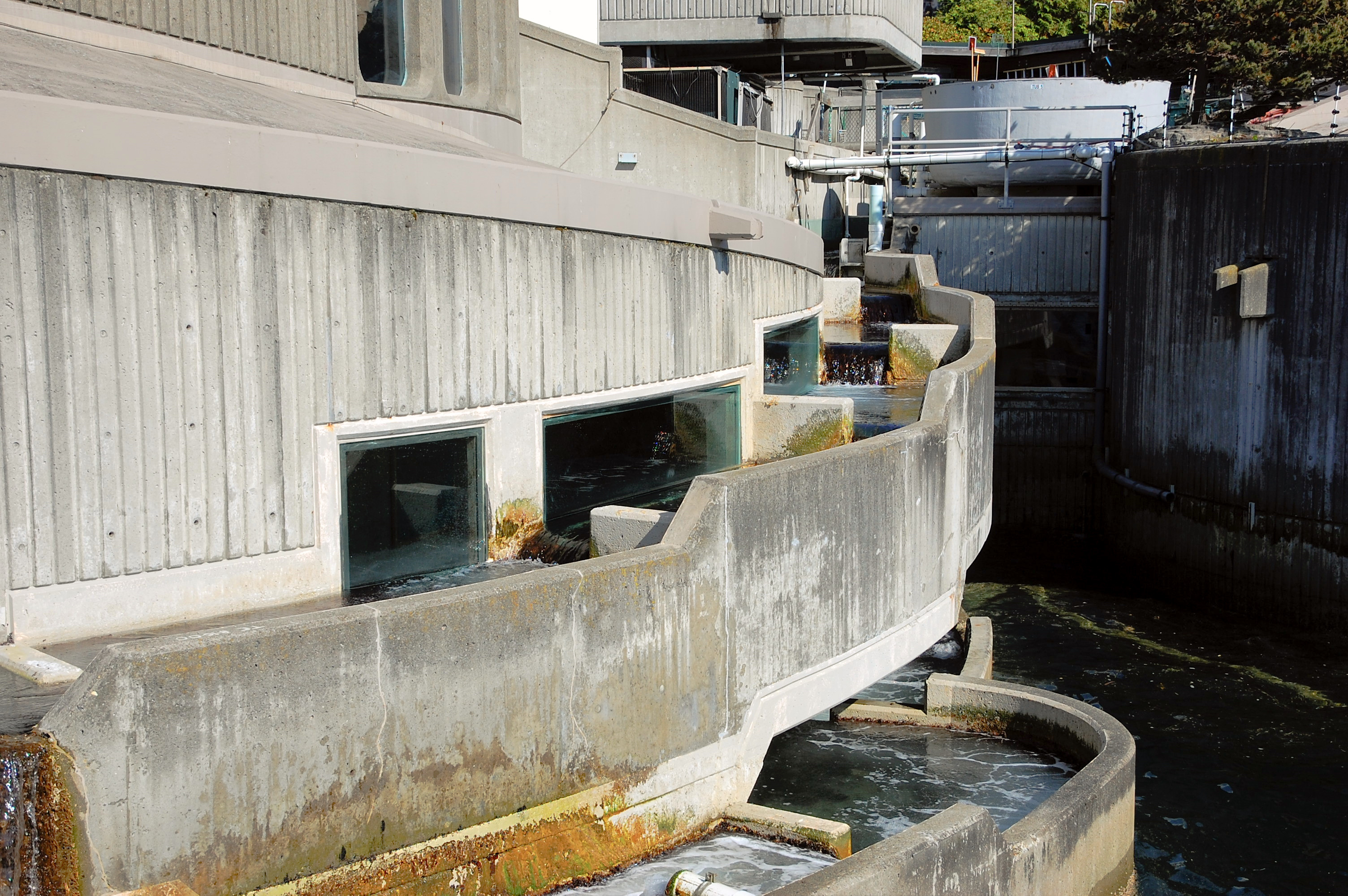 Fish ladder at the Seattle Aquarium